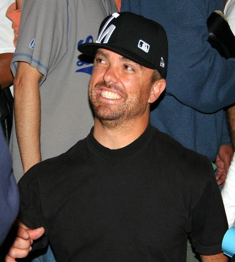 Jason Acuña, a professional skateboarder, an American TV host and actor